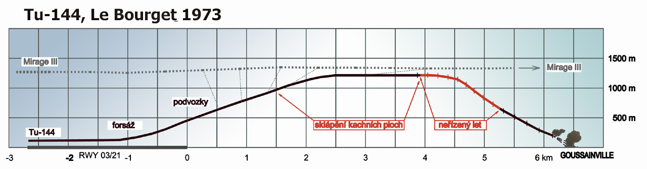 Le Bourget disaster 1973 - profil of flight Tu-144 and Mirage III